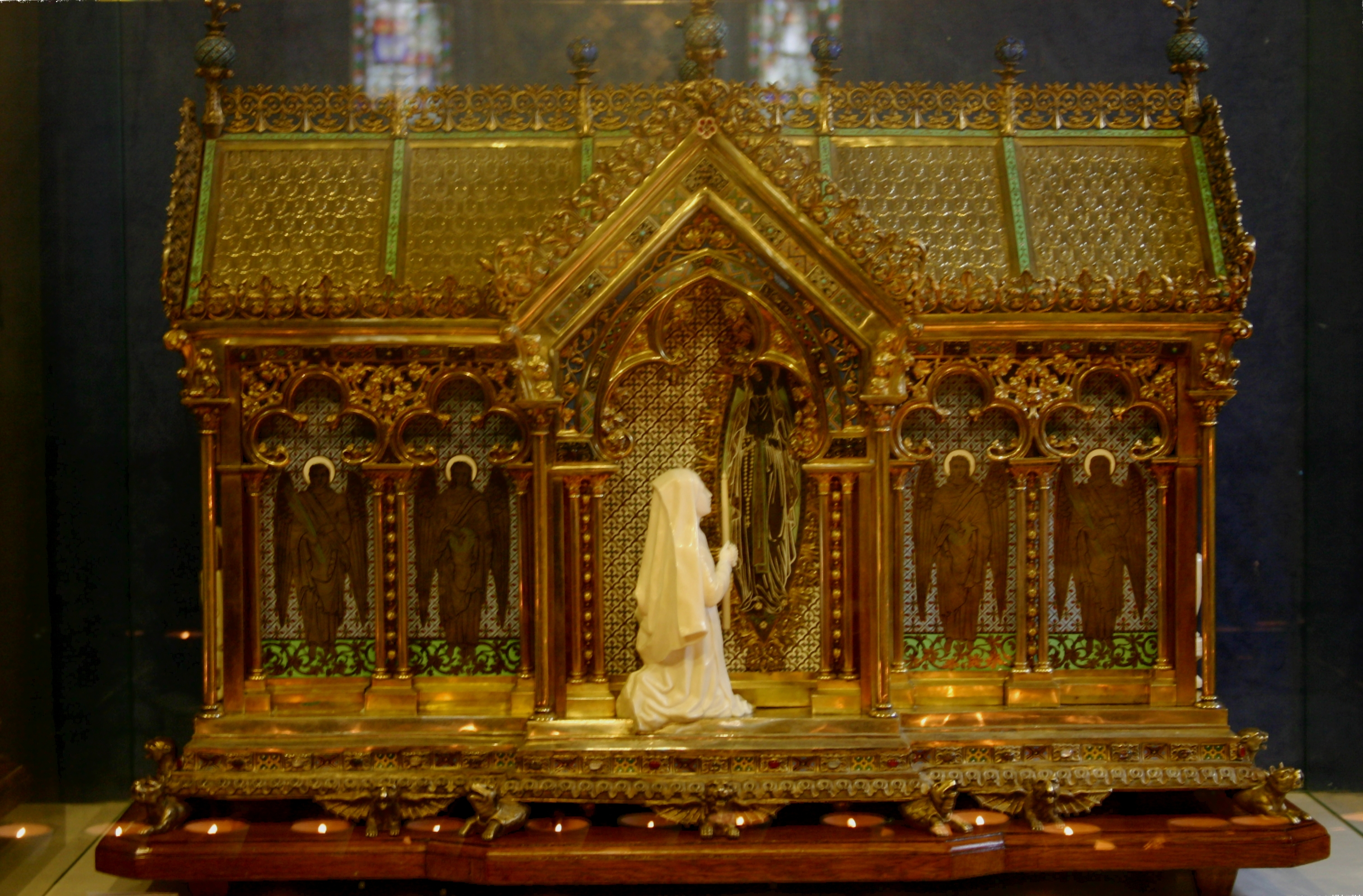 Basilica of the Immaculate Conception - Lourdes